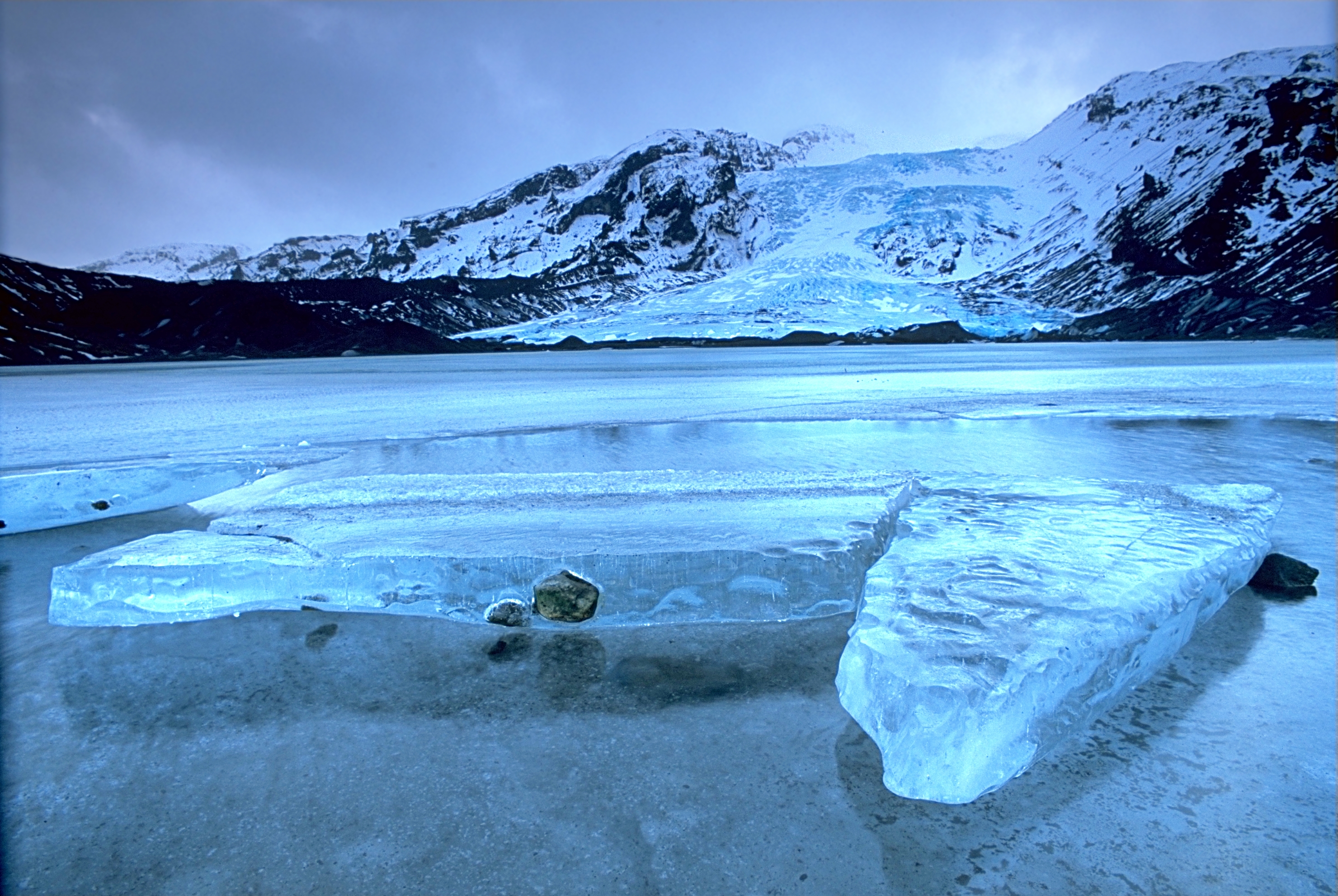 Gígjökull, an outlet glacier extending from Eyjafjallajökull, Iceland. Lónið is the lake visible in the foreground.